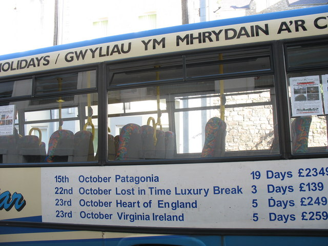 Going Far The Seren Arian/Silver Star Company of Caernarfon advertises its October 2006 holiday tours. The range of choice is far ranging, from the Heart of England to the Welsh colony in Patagonia. The Lost in Time tour sounds intriguing. Maybe it is a stay at home tour!